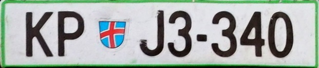 Slovenian license plate with a sticker of Piran administrative unit. 1992-2004 series (no EU bar).